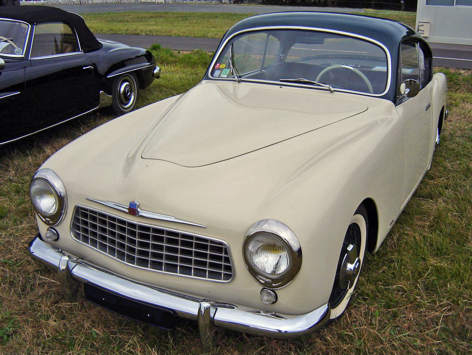 1954 Figoni & Falaschi Simca Sport 9 Coupé, seen at the Autodrome de Linas-Montlhéry, 2009